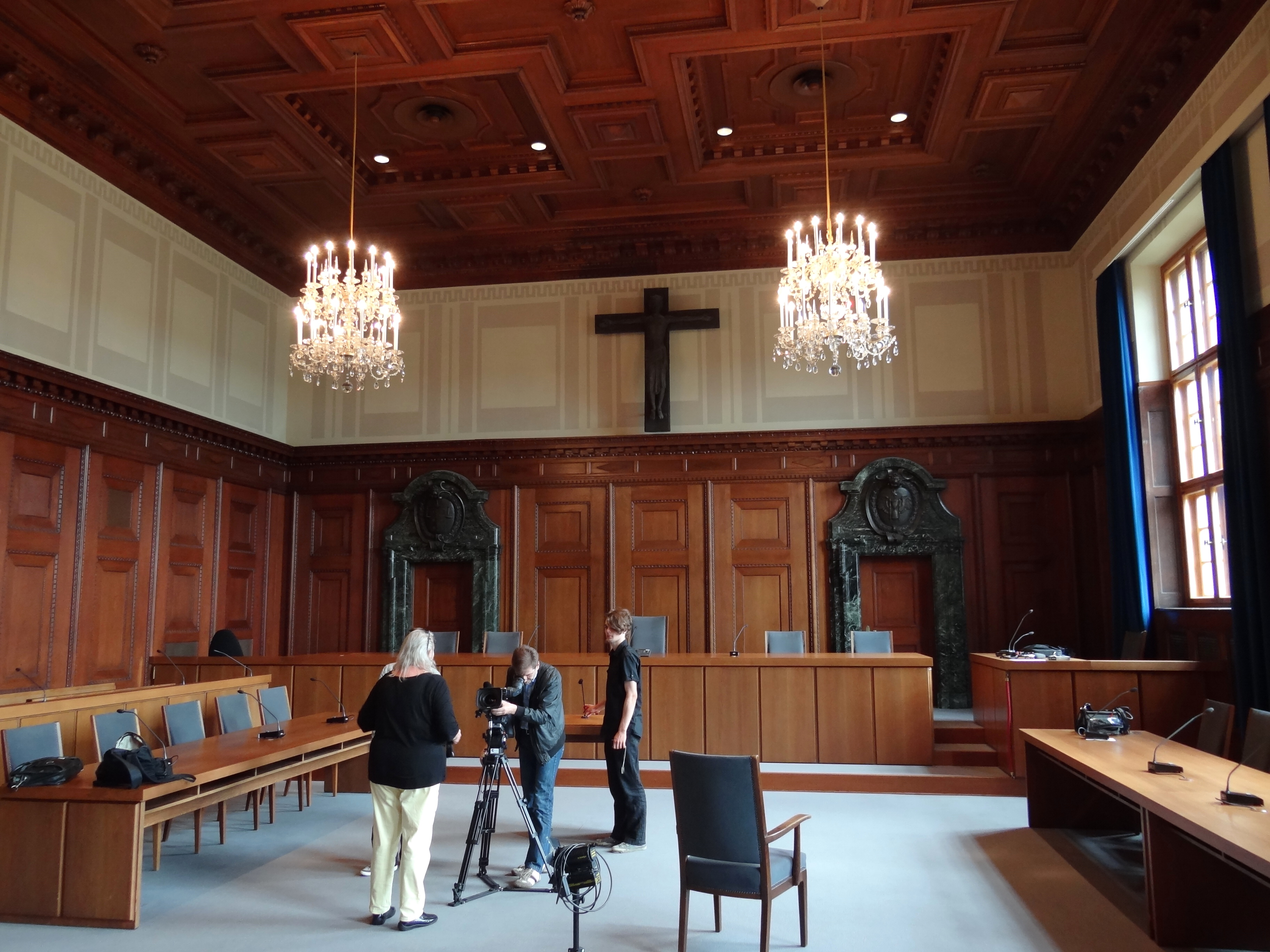 Interior of Courtroom 600 - Where Nazi Leaders Were Tried - With Documentary Filmmakers Setting Up - Palace of Justice - Nuremberg-Nurnberg - Germany